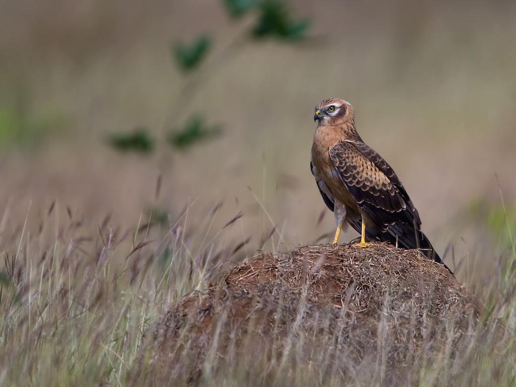 Montagu's Harrier Circus pygargus juvenile (not necessarily female), Bangalore India